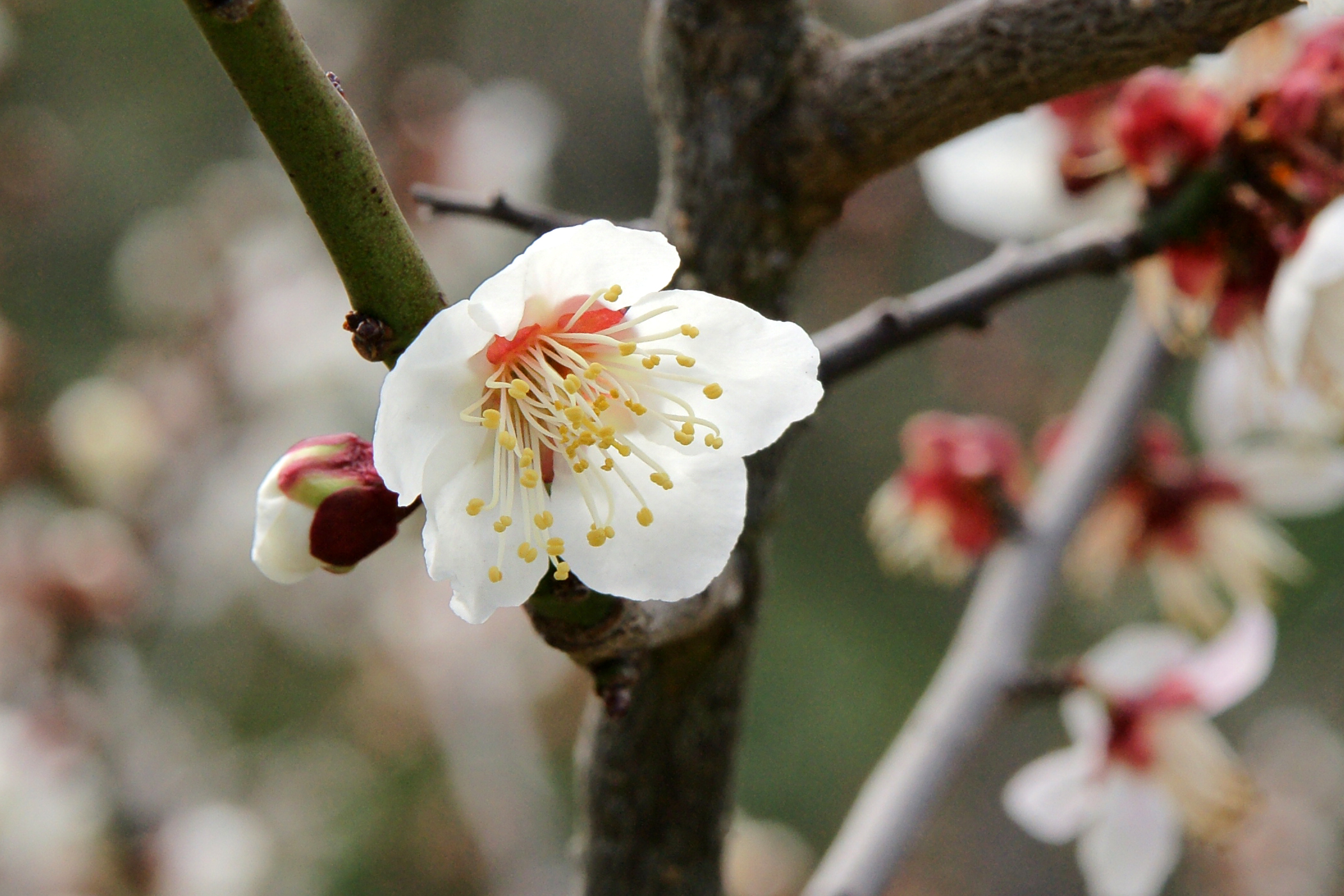 Minabe Bairin, Minabe, Wakayama prefecture, Japan